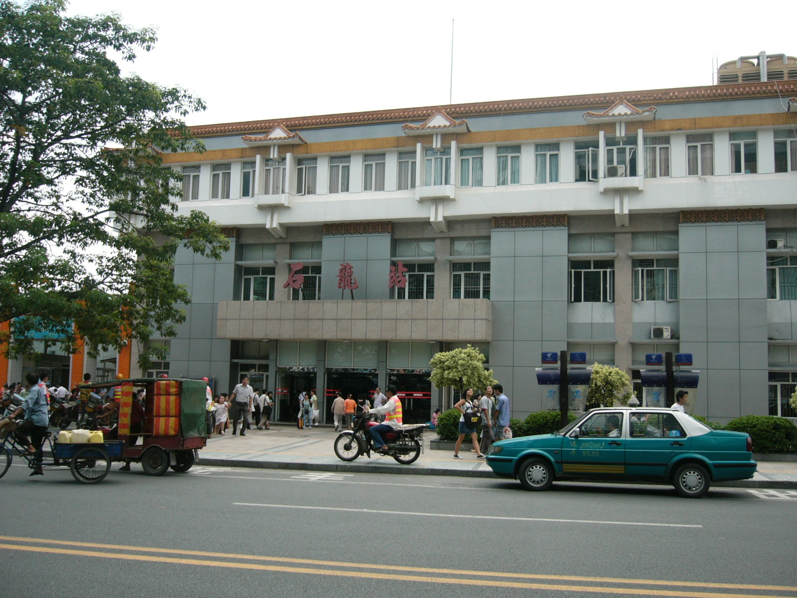 Enterence of Shilong Station, Guangzhou-Shenzhen Railway, China